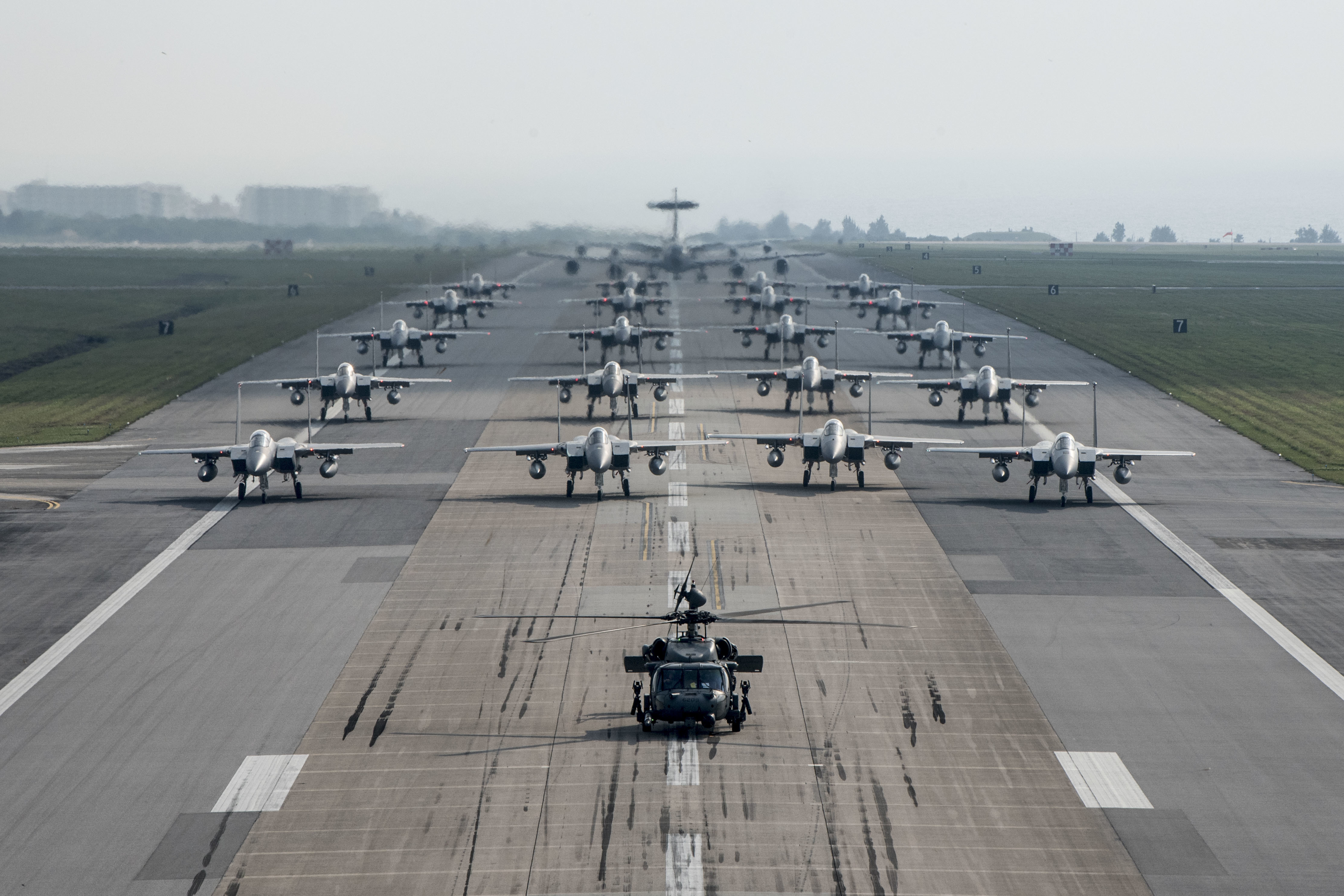 Aircraft from the 18th Wing perform an elephant walk during a no-notice readiness exercise April 12, 2017, at Kadena Air Base, Japan. Aircraft from the 33rd Rescue Squadron, 44th and 67th Fighter Squadrons, 909th Air Refueling Squadron,and the 961st Airborne Air Control Squadron generated simultaneously for the elephant walk to demonstrate Kadena's ability to sortie all combat aircraft assets in a short amount of time.